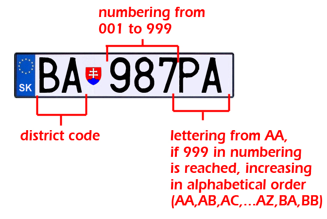 Explanation of slovak licence plates